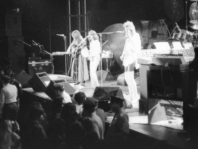 Yes at the USC Coliseum in Columbia, South Carolina, 1974.